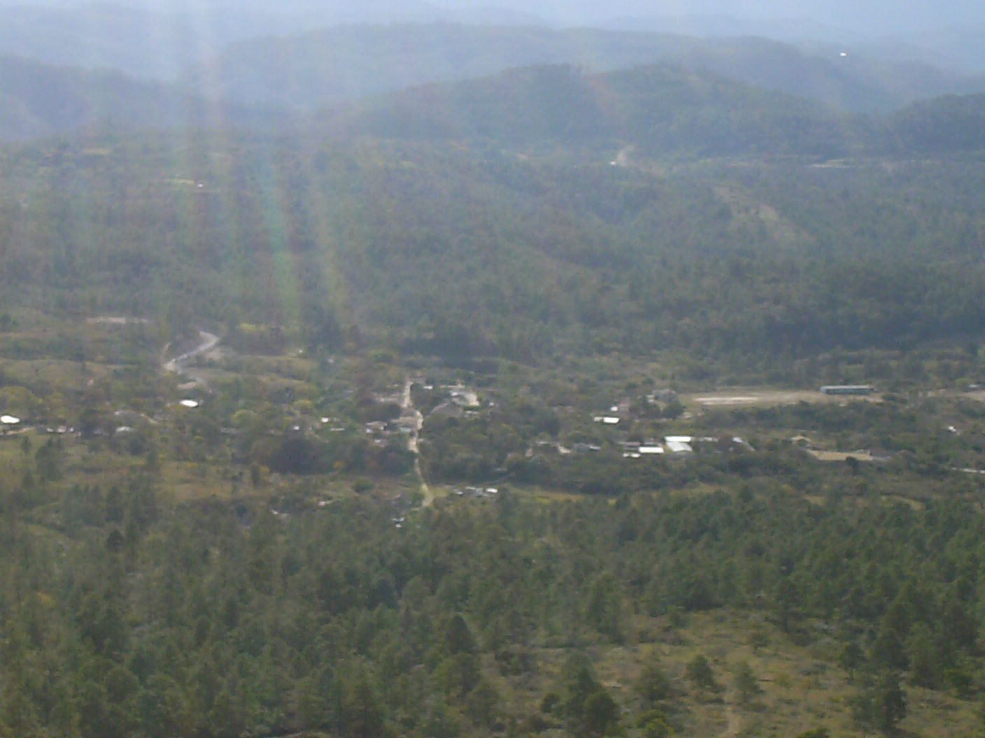 Belén, municipality in the Honduran department of Lempira.